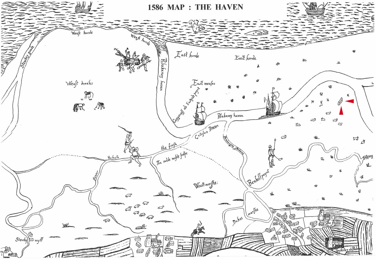 1586 map of Blakeney marshes, with arrows to identify the chapel. Taken from photograph in Wright's article